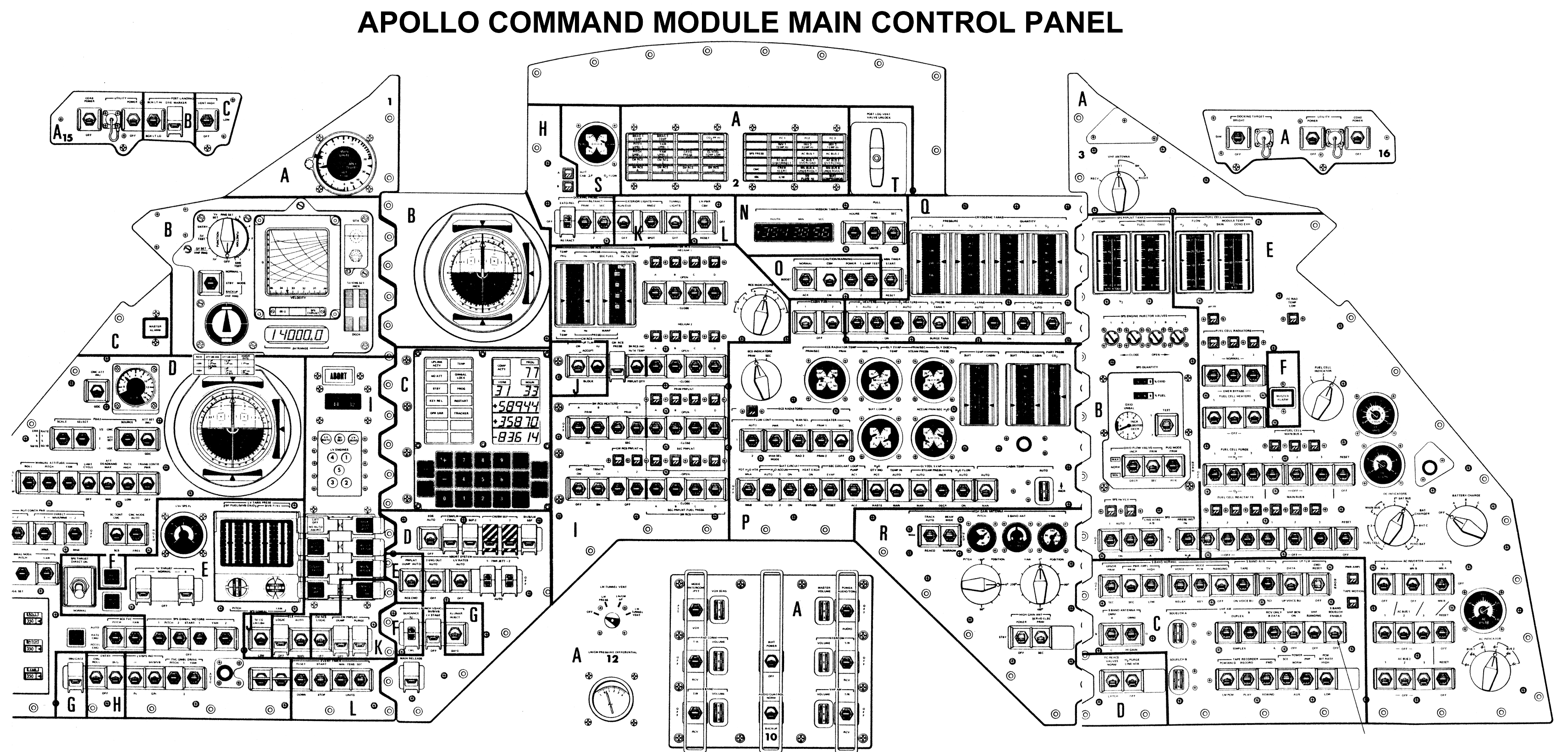 Apollo Command Module main control panel, from "Apollo Operations Handbook: Block II Spacecraft." Additional information at "Project Apollo Drawings and Technical Diagrams".